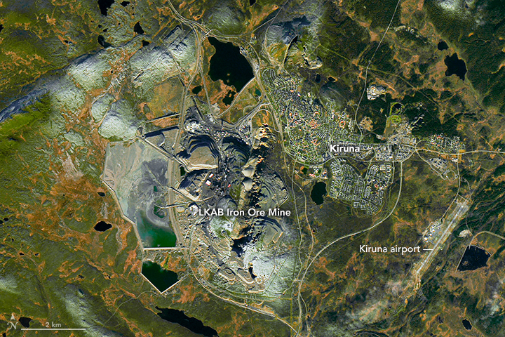 Kiruna, the largest underground iron ore mine in the world, has been in operation since 1900. But recent years have brought change for the residents of the nearby town. In coming decade, the 23,000 people and their homes and businesses will move three kilometers (nearly two miles) away. Resource extraction is crucial for the town’s existence and economic wellbeing. But the steady development of mine shafts continues to weaken the ground there. In 2004, the mine’s operator, the Luossavaara-Kiirunavaara Company, announced that development of the mine has threatened the structural integrity of the town’s buildings. Some of them, including Kiruna’s historic red church, will be taken apart and reassembled at the new location. The Operational Land Imager (OLI) on the Landsat 8 satellite captured this image of the Kiruna mine, town, and nearby airport on October 10, 2016. The green vegetation is marbled with yellow, likely the result of birch forests and deciduous shrubs changing color. A dusting of snow whitens some hilltops in the image. The Sun’s low angle on the southern horizon casts long shadows on the north sides of the hills. The Kiruna orebody is one of the world’s largest magnetite-apatite deposits. Sweden, the biggest iron producer in Europe, owes its reserves to volcanic activity at least 1.8 billion years ago, according to a paper in Economic Geology.